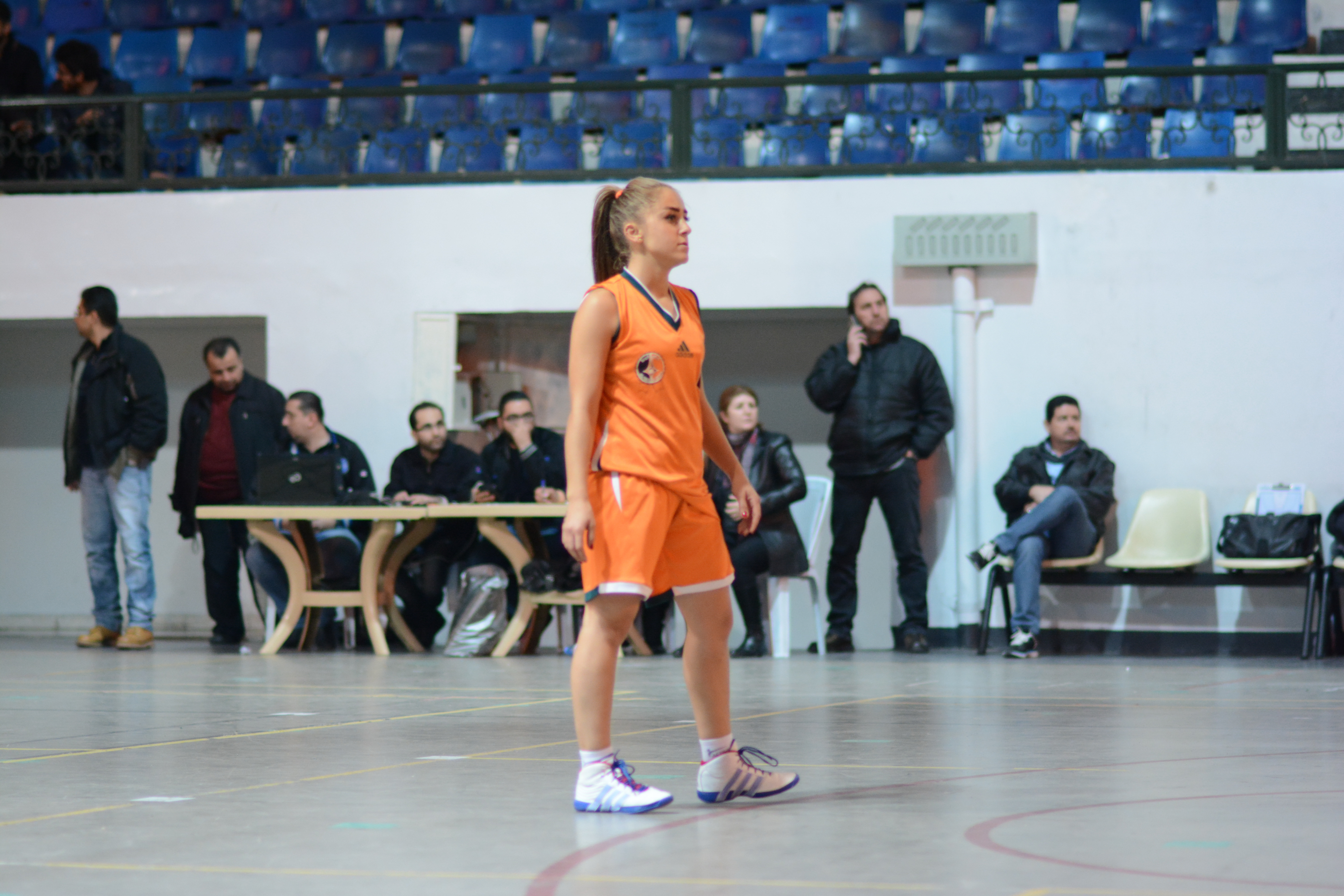 جهان مملوك